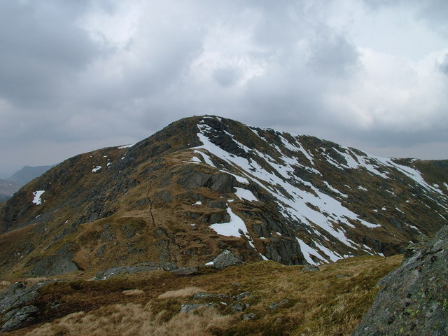 Looking to the summit of Sgurr Nan Coireachan